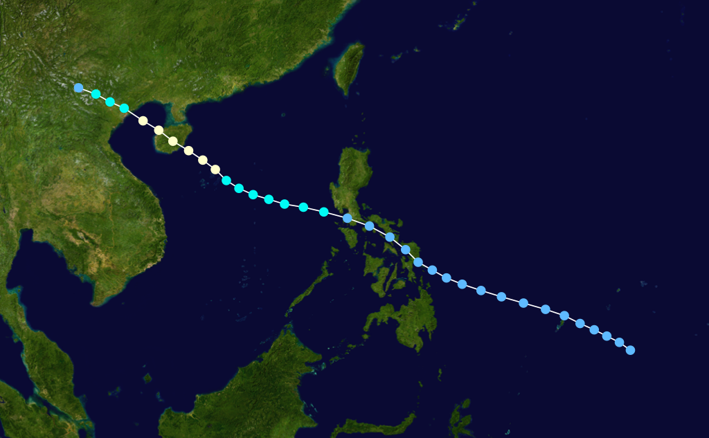 Typhoon Zeke 1991 track. Uses the color scheme from the Saffir-Simpson Hurricane Scale.